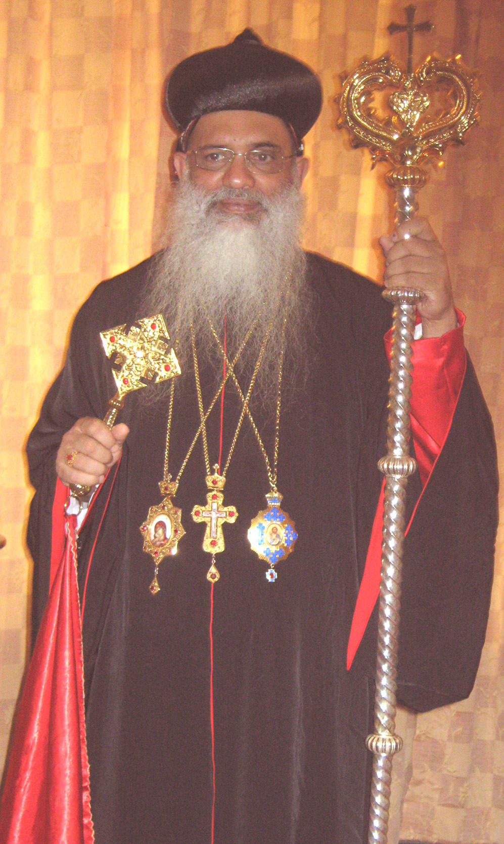 Patriarch H.H. Baselius MarThoma Paulose II, Catholicos Patriarch of the East (Supreme Head of the Indian Orthodox Church)